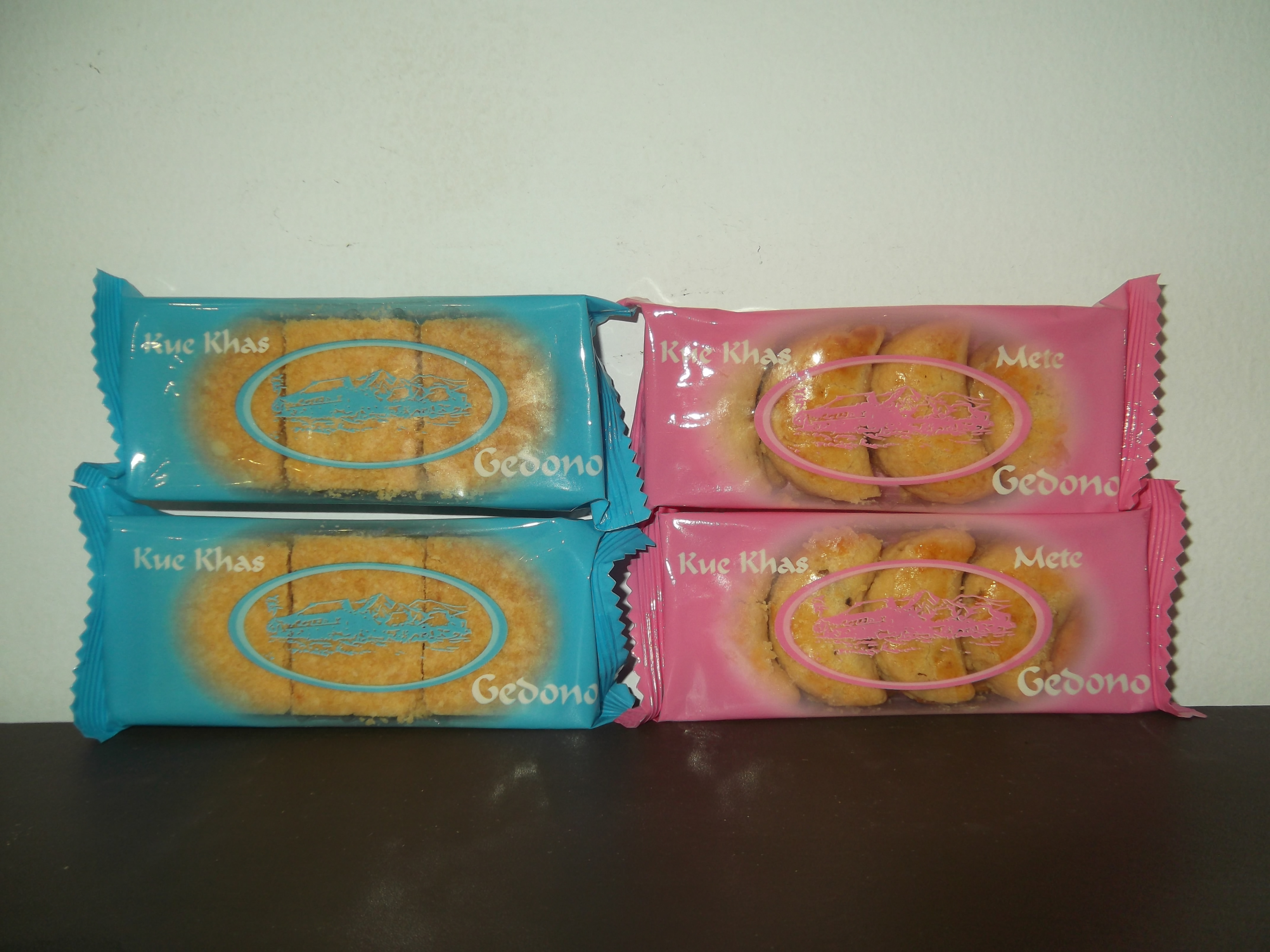 One of the cookies produced by the nuns from the Our Lady of Unity Monastery, Gedono in Getasan, Semarang, sold in the cafeteria of St. Theresia Catholic Church, Jakarta. One of the raw material is remaining pieces from the process of making hosts.